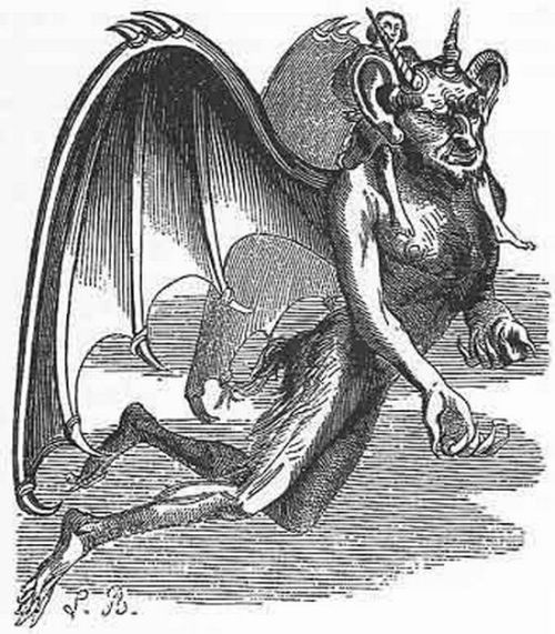 Imagem de Gaap conforme o Dictionaire Infernnale.